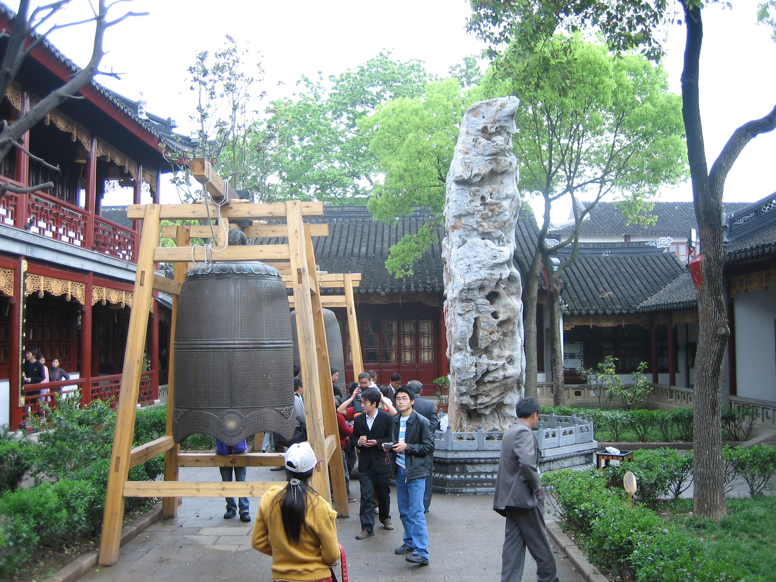 Two bells in Hanshan Temple Fengqiao, outside of Suzhou, China